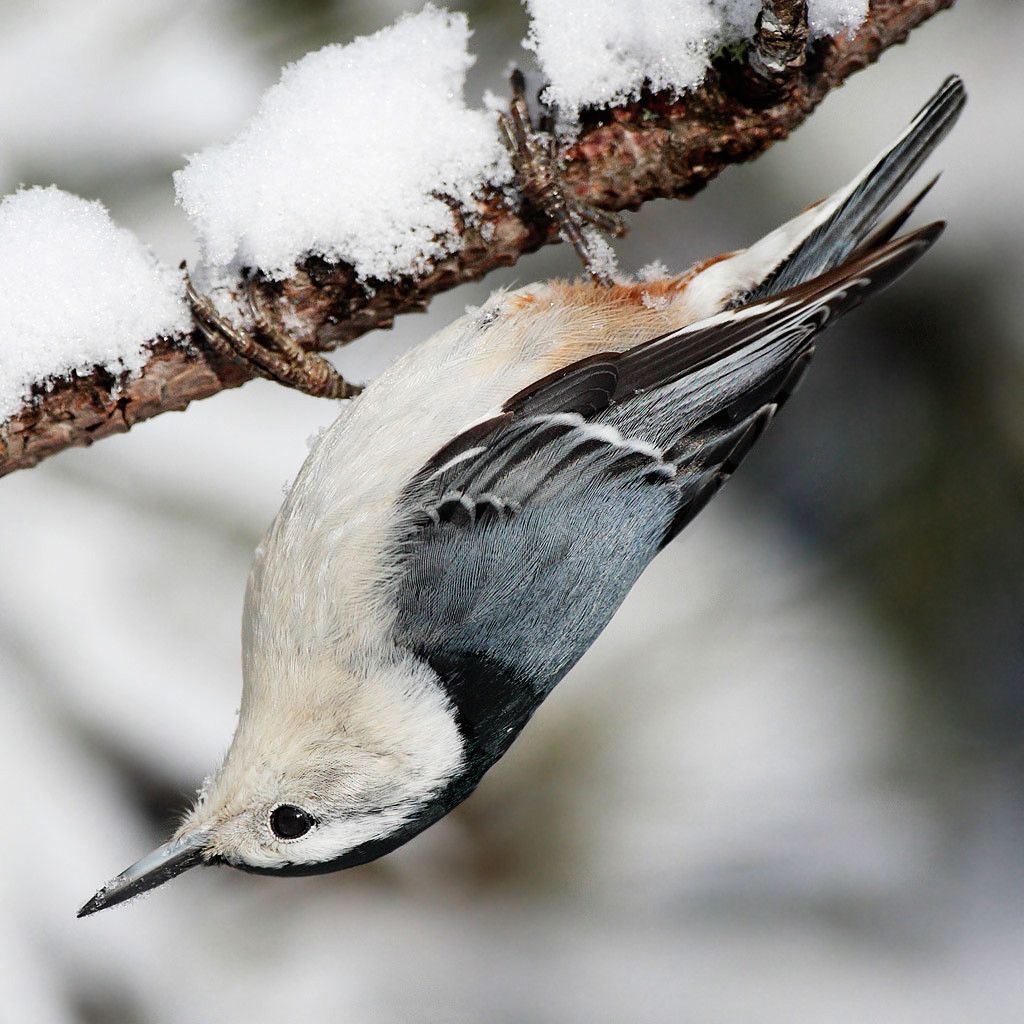 White-breasted Nuthatch in Algonquin Provincial Park, Canada, hanging from a tree branch. This image is not upside-down.